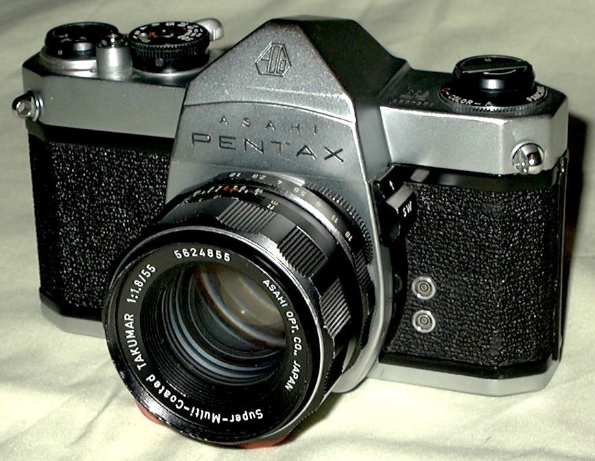 Asahi Pentax SP500 SLR Camera